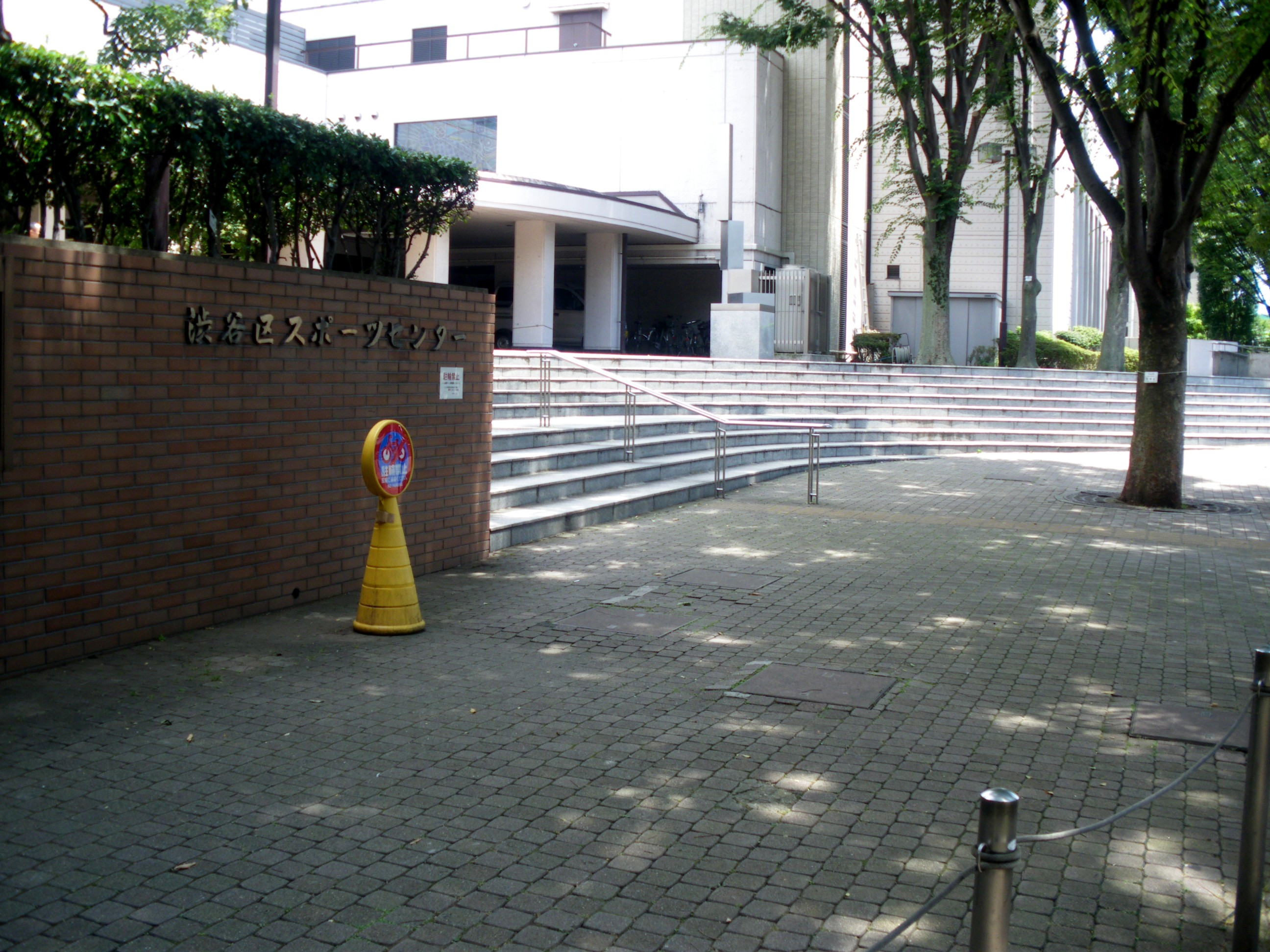 Shibuya Sports Center(Nishihara,Shibuya,Tokyo)